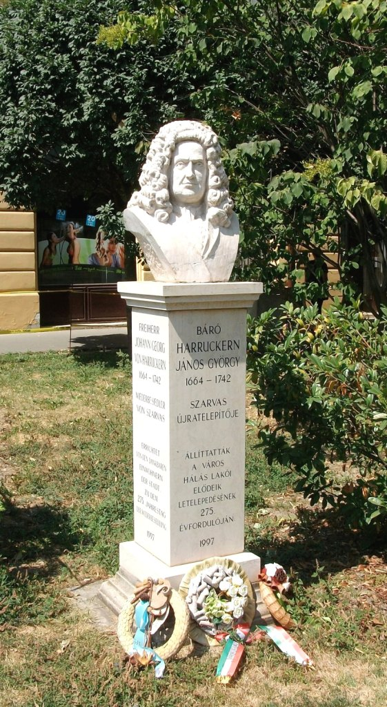 Bust of György János Harruckern in Szarvas, Hungary